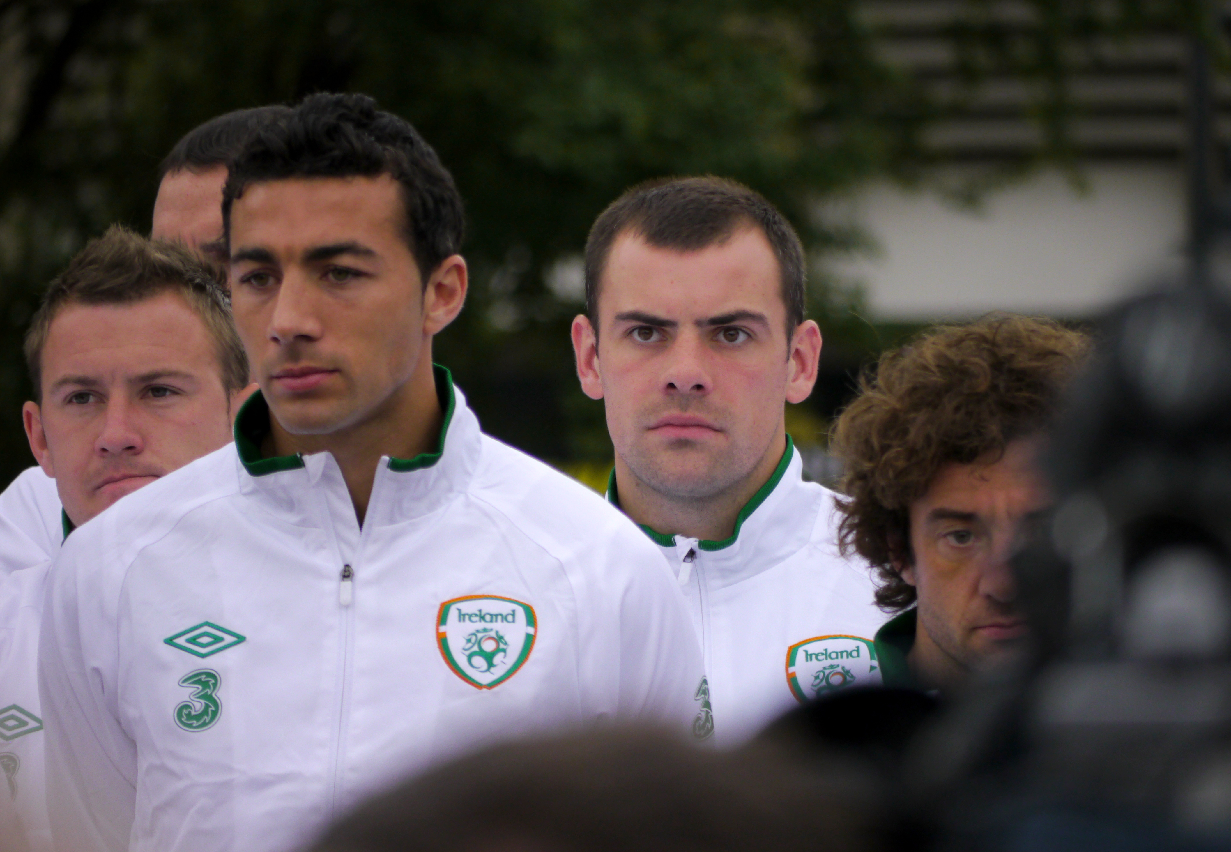 Irish football players Simon Cox, Stephen Kelly, Darron Gibson, and Stephen Hunt during "welcome ceremony" in Sopot, just before EURO 2012